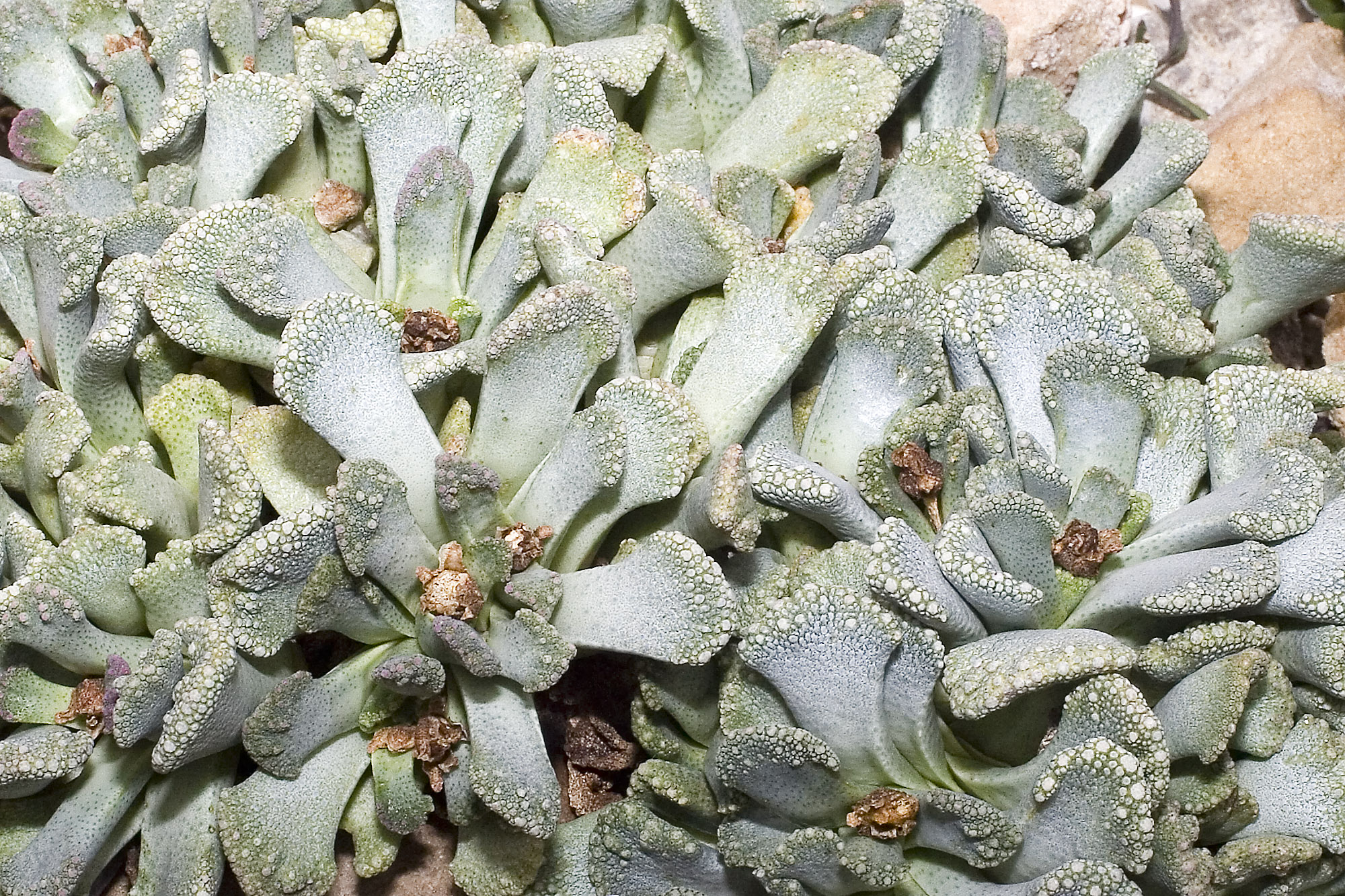 Titanopsis fulleri